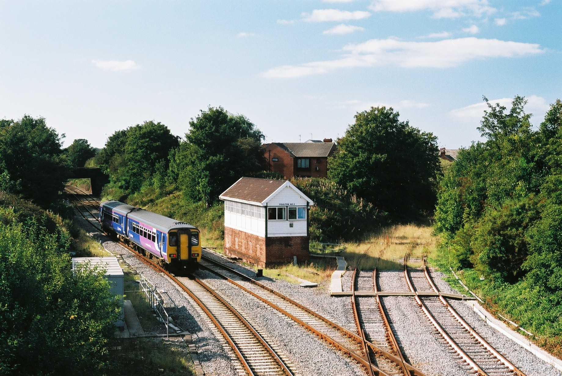 Poulton-le-Fylde Junction is where the disused Fleetwood Branch Line joins the main line to Blackpool. Photographed from the bridge adjacent to Poulton-le-Fylde railway station.